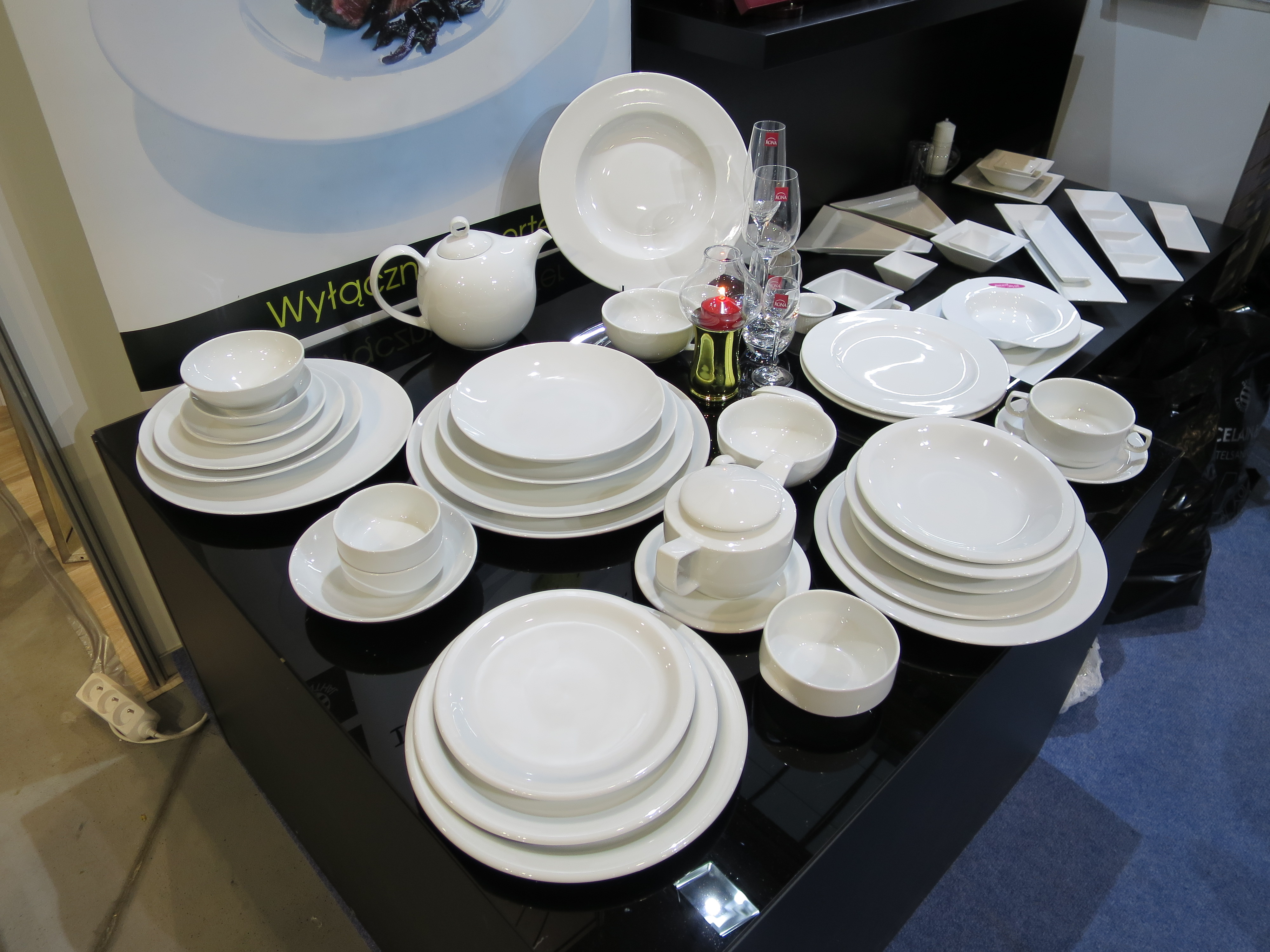 Zastawa stołowa The making of this document was supported by Wikimedia Polska Association, within Wikigrant no. WG 2015-48. English | polski | +/−